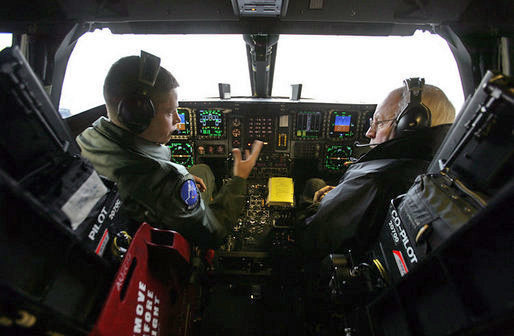 Vice President's Remarks at a Rally for the B-2 Bomber Forces Former Vice President Dick Cheney sits inside the cockpit of a B-2 Stealth Bomber with pilot Capt. Luke Jayne during a visit to Whiteman Air Force Base in Missouri, Friday, October 27, 2006. While at Whiteman AFB the Vice President also participated in briefings and attended a rally with over 2,000 military troops and their families. White House photo by David Bohrer